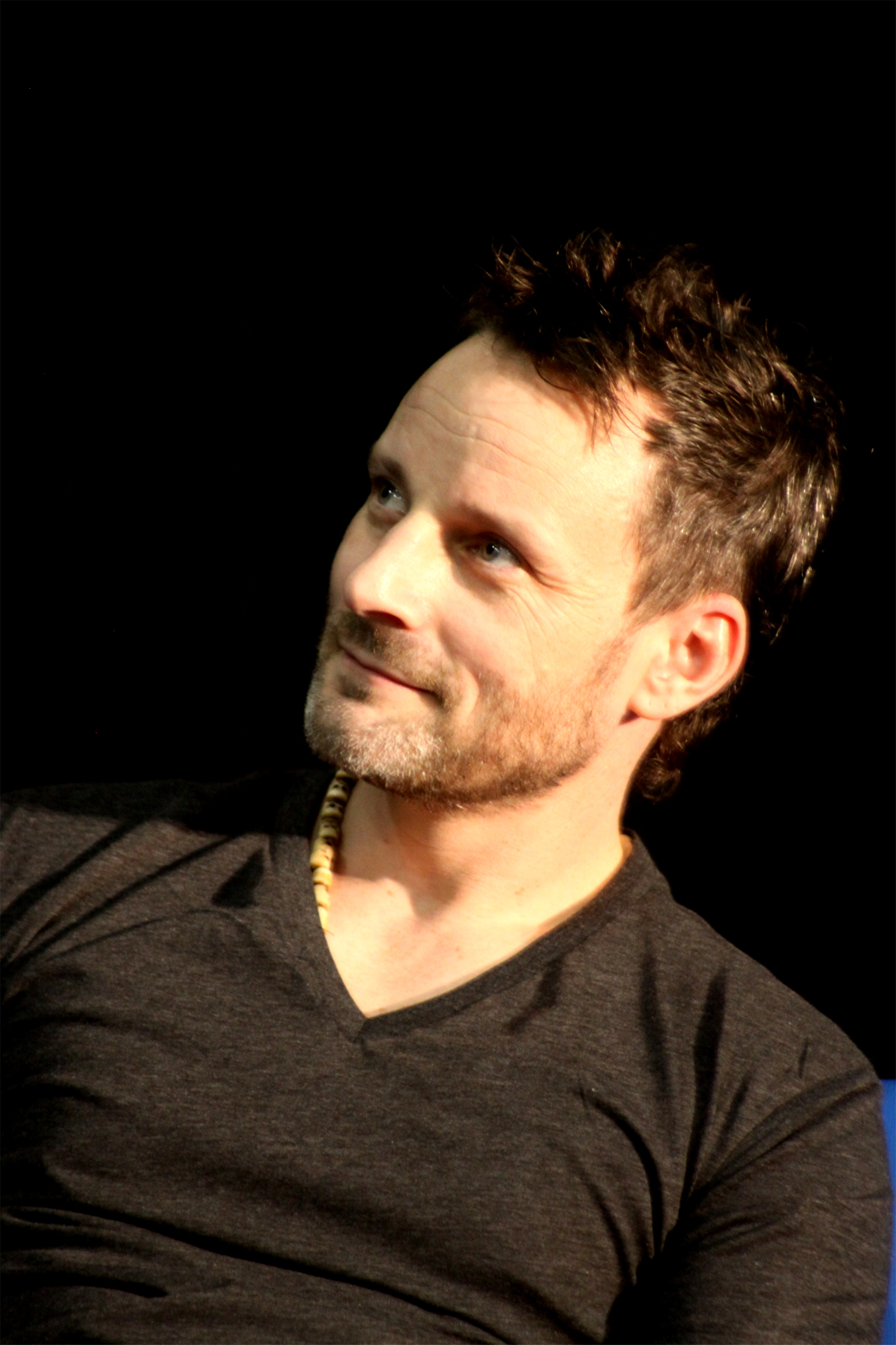 Ryan Robbins at Armageddon Expo Sydney in 2011